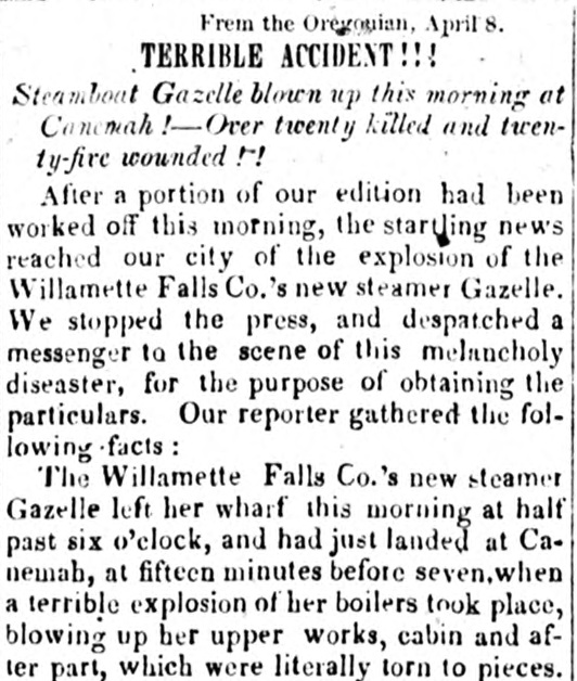 Newspaper story describing explosion of steamboat Gazelle, at Caneman, Oregon, April 8, 1854 '